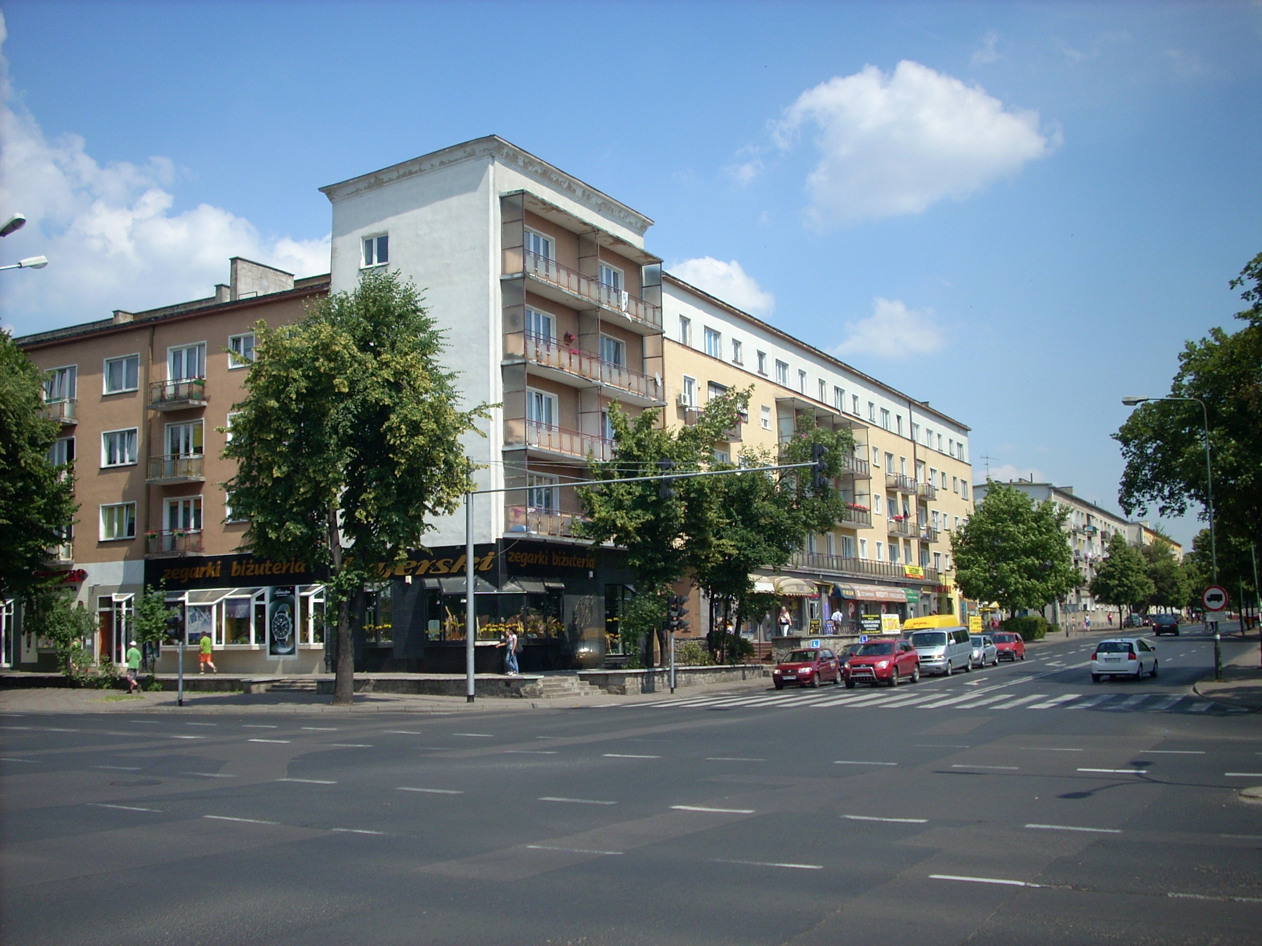 Konin Center